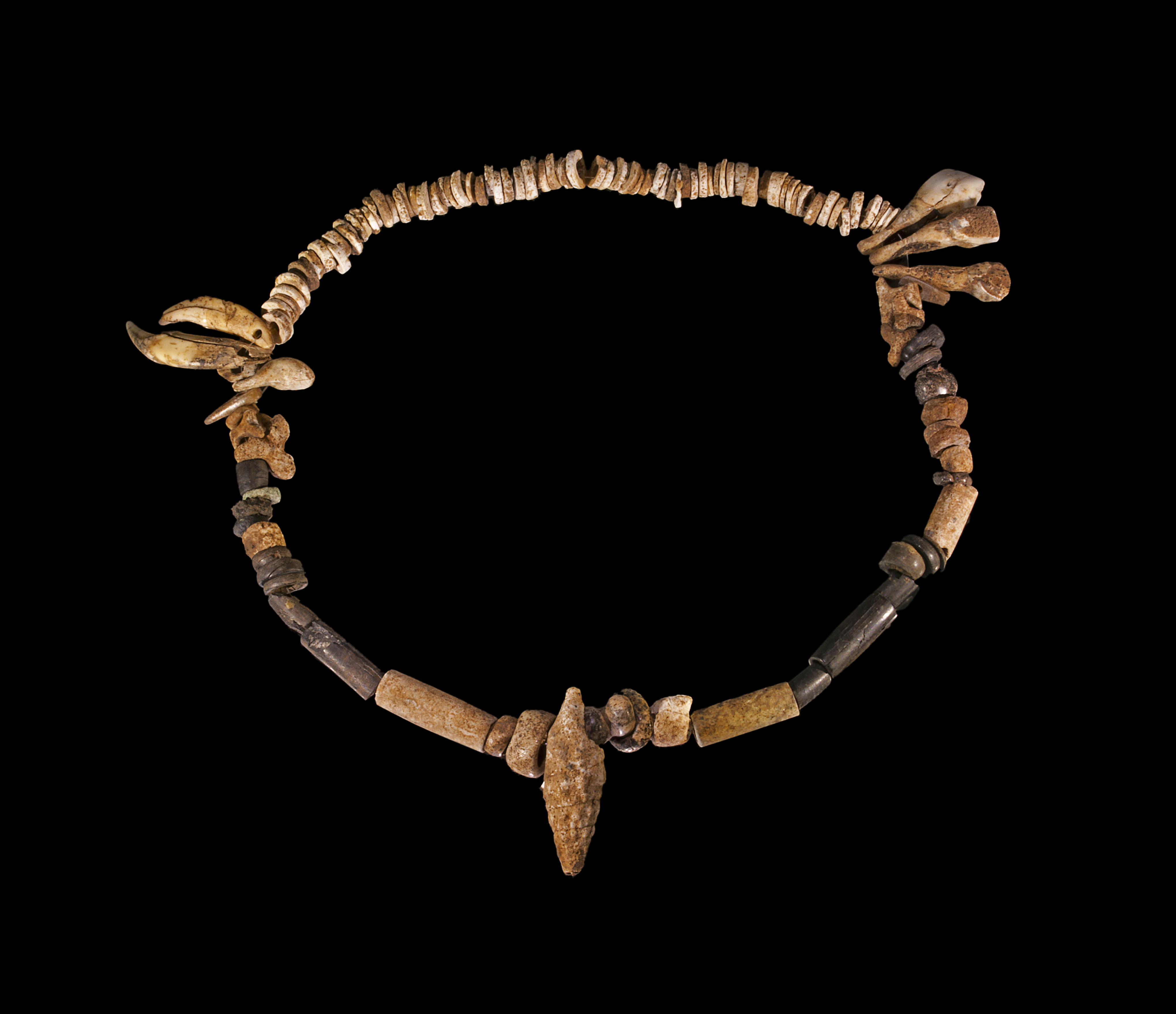 Necklace from the Bronze Age called "Peyrolevado". Description : Disk-like bivalve shell beads - perforated Cerithium shell - canid and cervid canines - bovine incisives - jade beads - calcite pearls - limestone pearls - reindeer horn pearls - copper pearls. Stage : Holocene Bronze age 1800-1500 BC Locality : Dolmens de Peyrolevado, Saint-Germain, Millau, Aveyron, France Former collection of Émile Cartailhac (1845 - 1921) Muséum of Toulouse MHNT.PRE.2009.0.239.1 Size : 170×170×15 mm